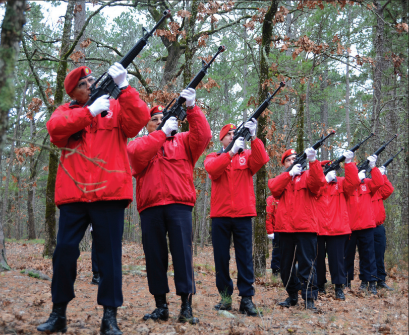 Choctaw Nation Color Guard firing a 21-gun salute in honor of four fallen Royal Air Force fliers. The ceremony on Feb. 18, 2018 rededicated the AT6 Monument in honor of the four, which was originally dedicated in February 2000.